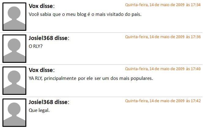 Draw about a fake dialogue on a blog made by me on Microsoft Office PowerPoint. Observation: This image is a draw made on Microsoft Office PowerPoint. The blog on this picture don't is real.